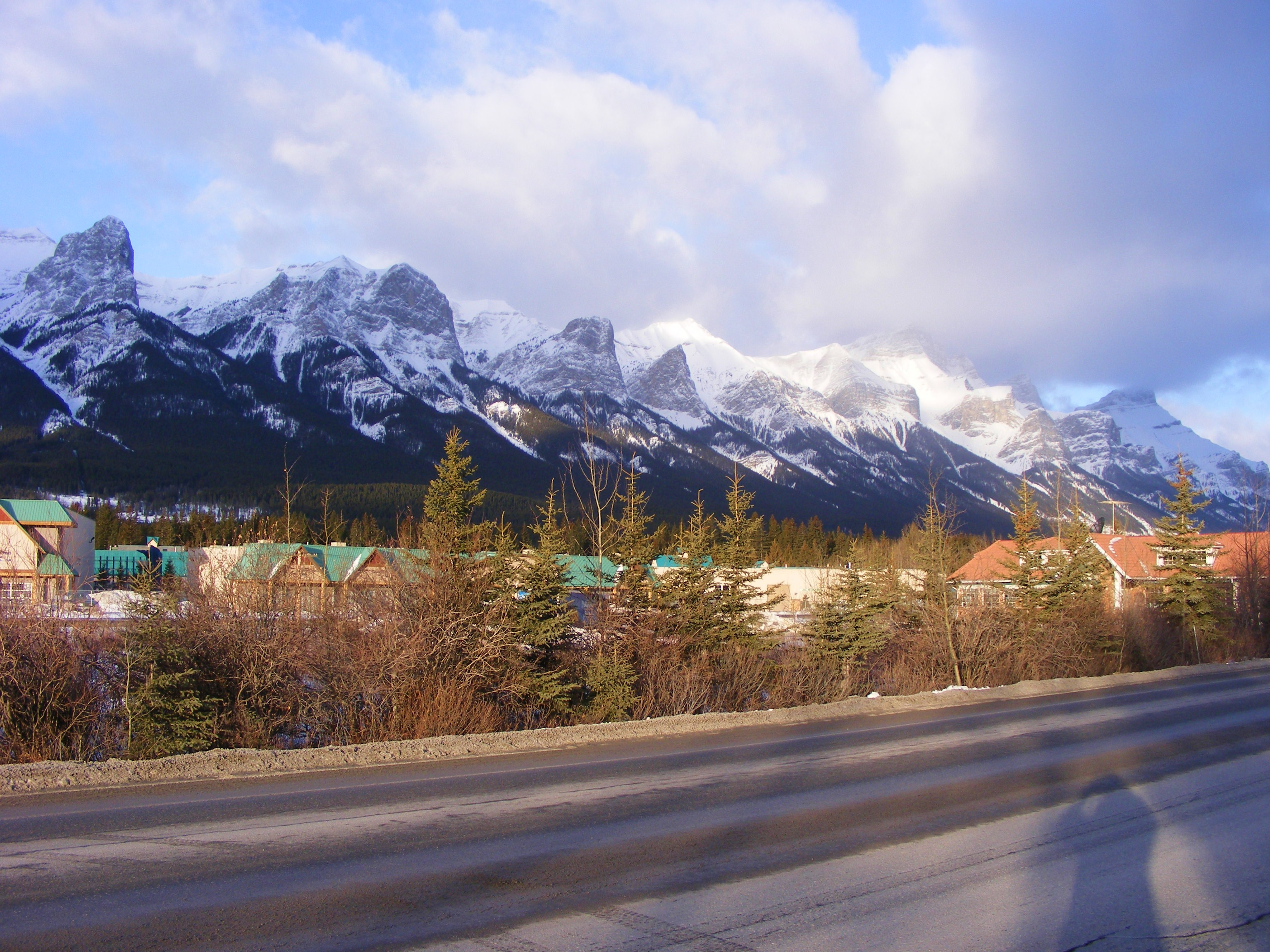 The back side of Mount Rundle, as seen from Canmore. The mountain extends over 12 kilometres; all the peaks seen in this photo are part of Mount Rundle. Banff National Park, Alberta, Canada